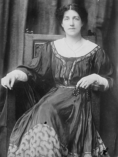 May Morris (1862–1938), English craftswoman and designer